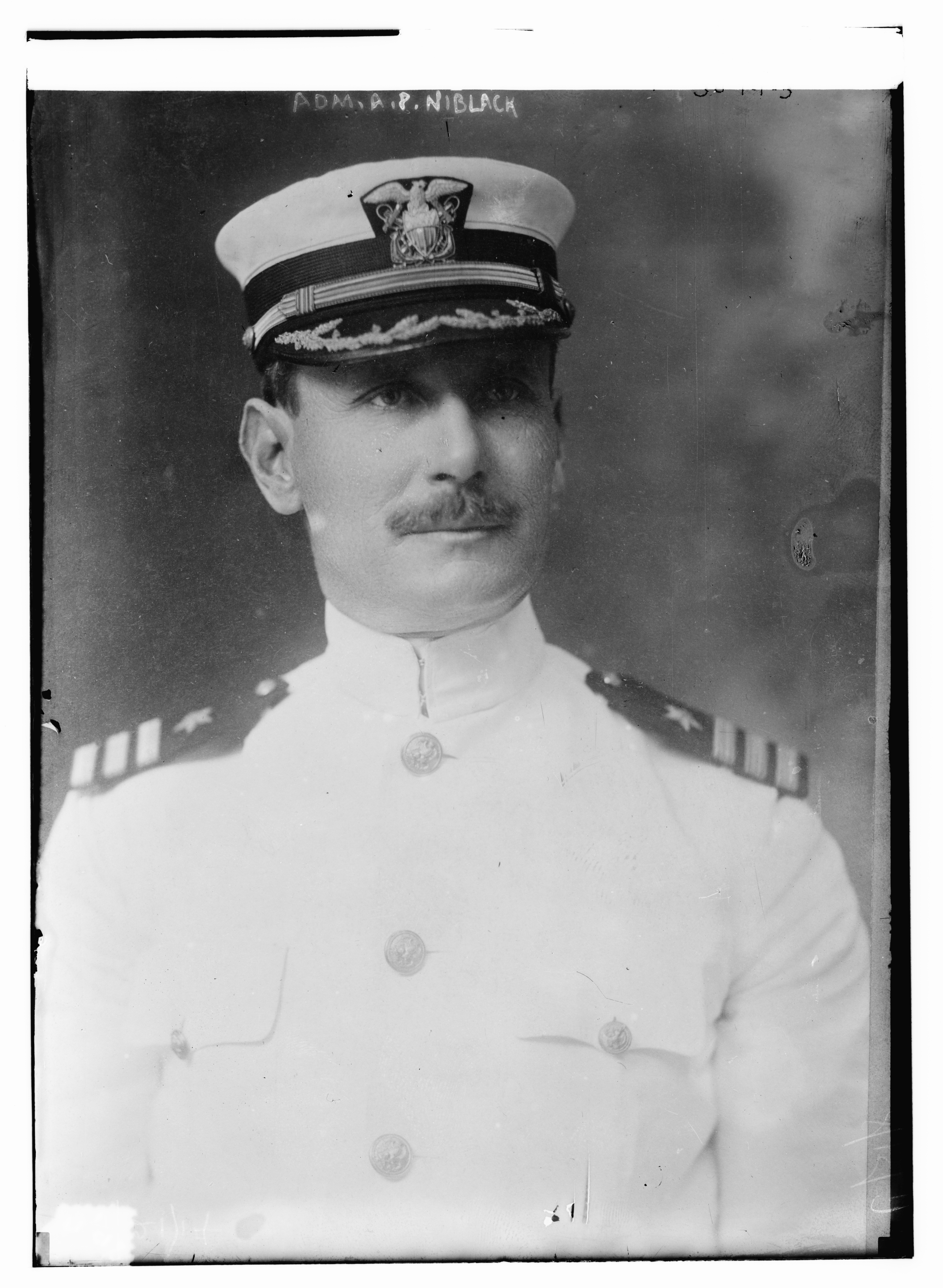 Bain News Service,, publisher. Adm. A. P. Niblack (pictured as Commander) [between ca. 1910 and ca. 1915] 1 negative : glass ; 5 x 7 in. or smaller. Notes: Title from unverified data provided by the Bain News Service on the negatives or caption cards. Forms part of: George Grantham Bain Collection (Library of Congress). Format: Glass negatives. Repository: Library of Congress, Prints and Photographs Division, Washington, D.C. 20540 USA, General information about the Bain Collection is available at Persistent URL: Call Number: LC-B2- 3044-5